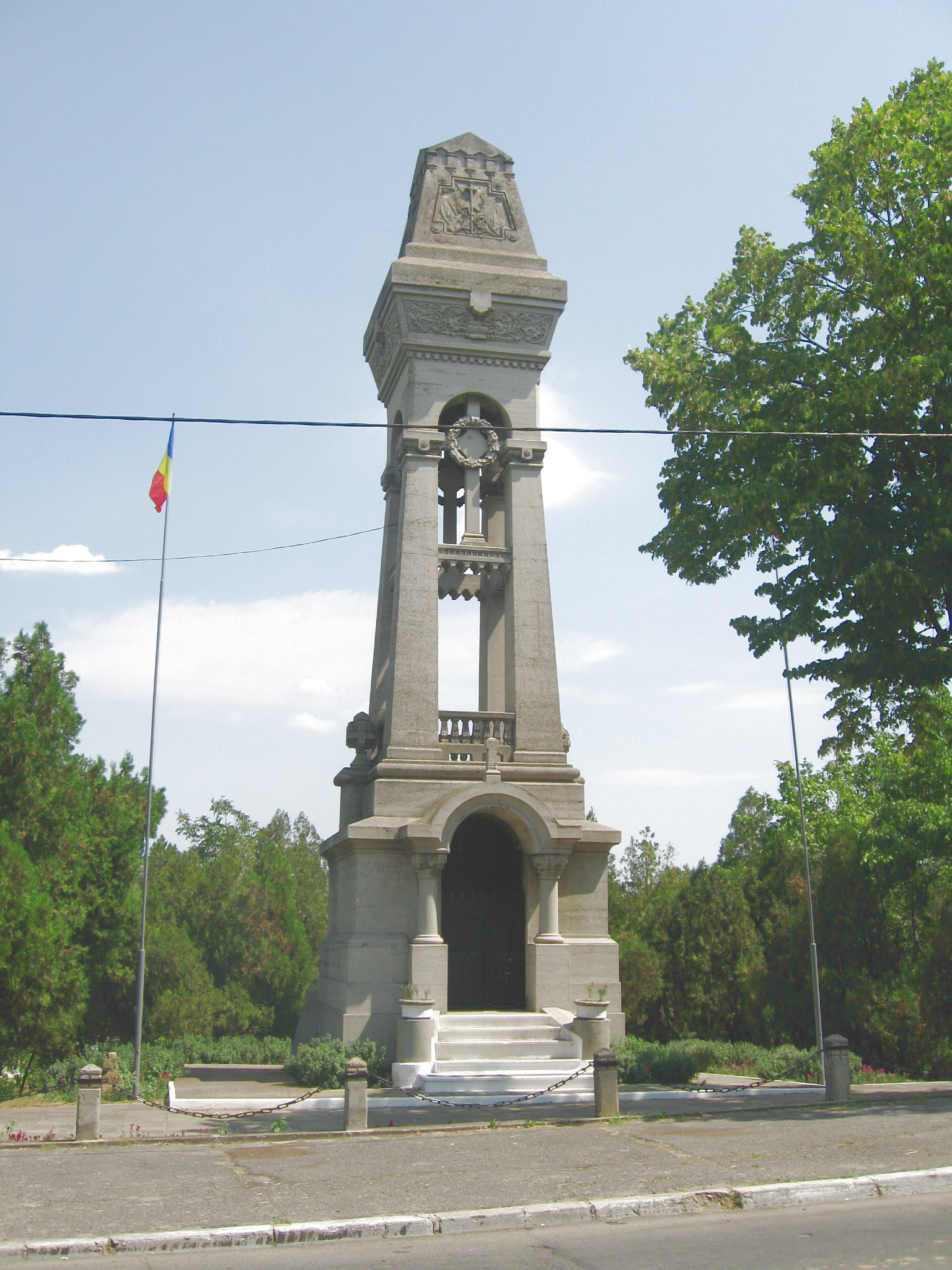 Iaşi , World War I Mausoleum , Iaşi , Romania